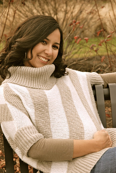 Lizia Oliveira